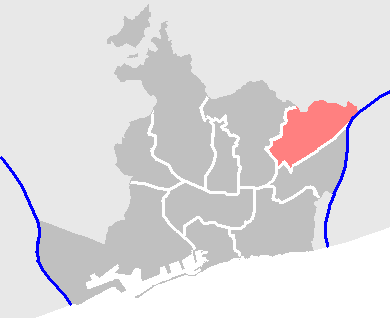 Locator maps of districts/ neighbourhoods in Barcelona: Map - Barcelona - Nou Barris.PNG